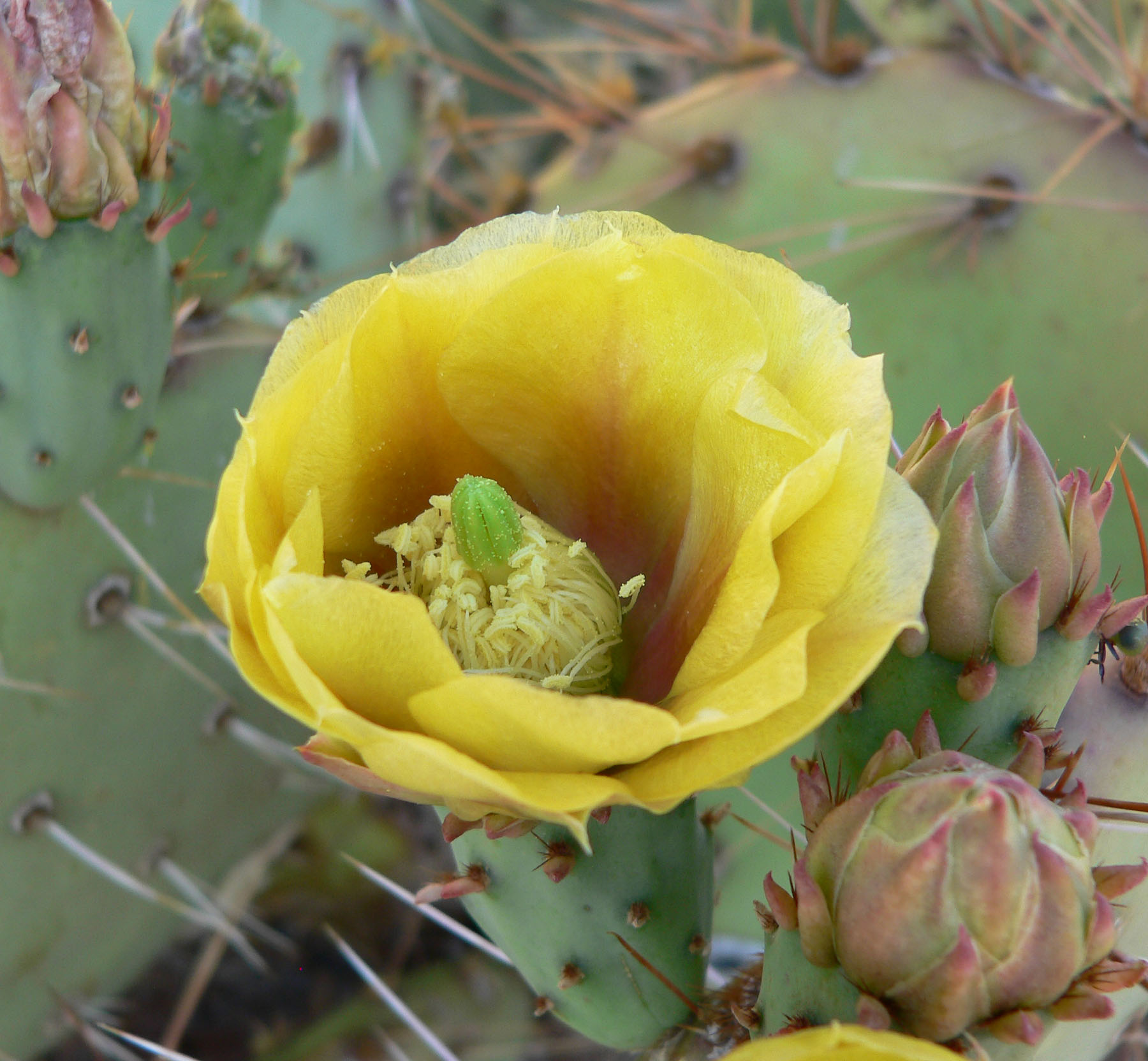 Opuntia phaeacantha in Calico Basin, west of Las Vegas, Nevada